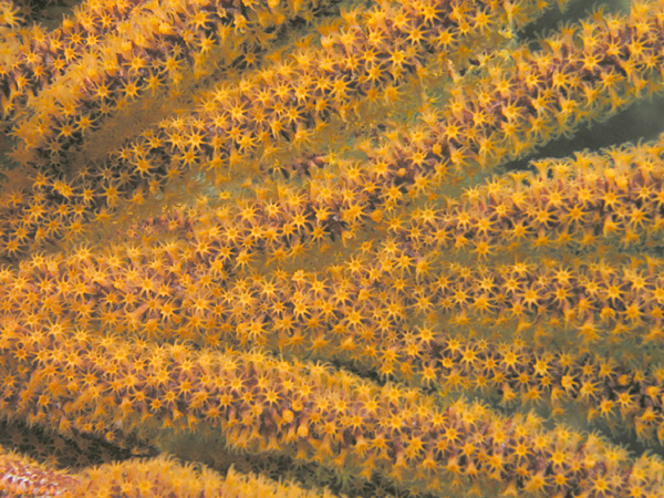 Sea Fan, Anacapa Island, Channel Islands, California. Image taken by Clark Anderson/Aquaimages.